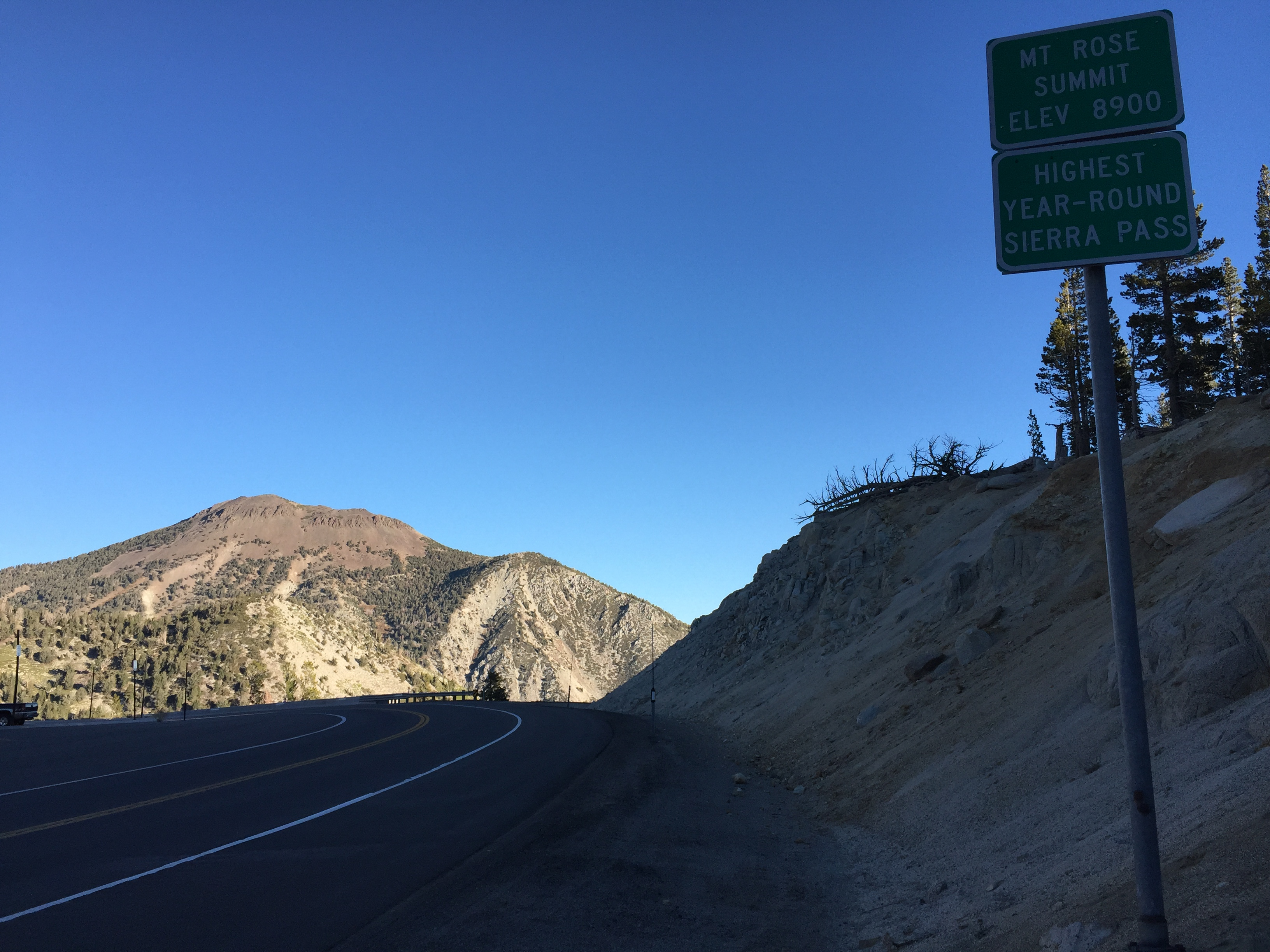 Sign for Mount Rose Summit along eastbound Nevada State Route 431 (Mount Rose Highway) in Washoe County, Nevada, with Mount Rose visible in the distance